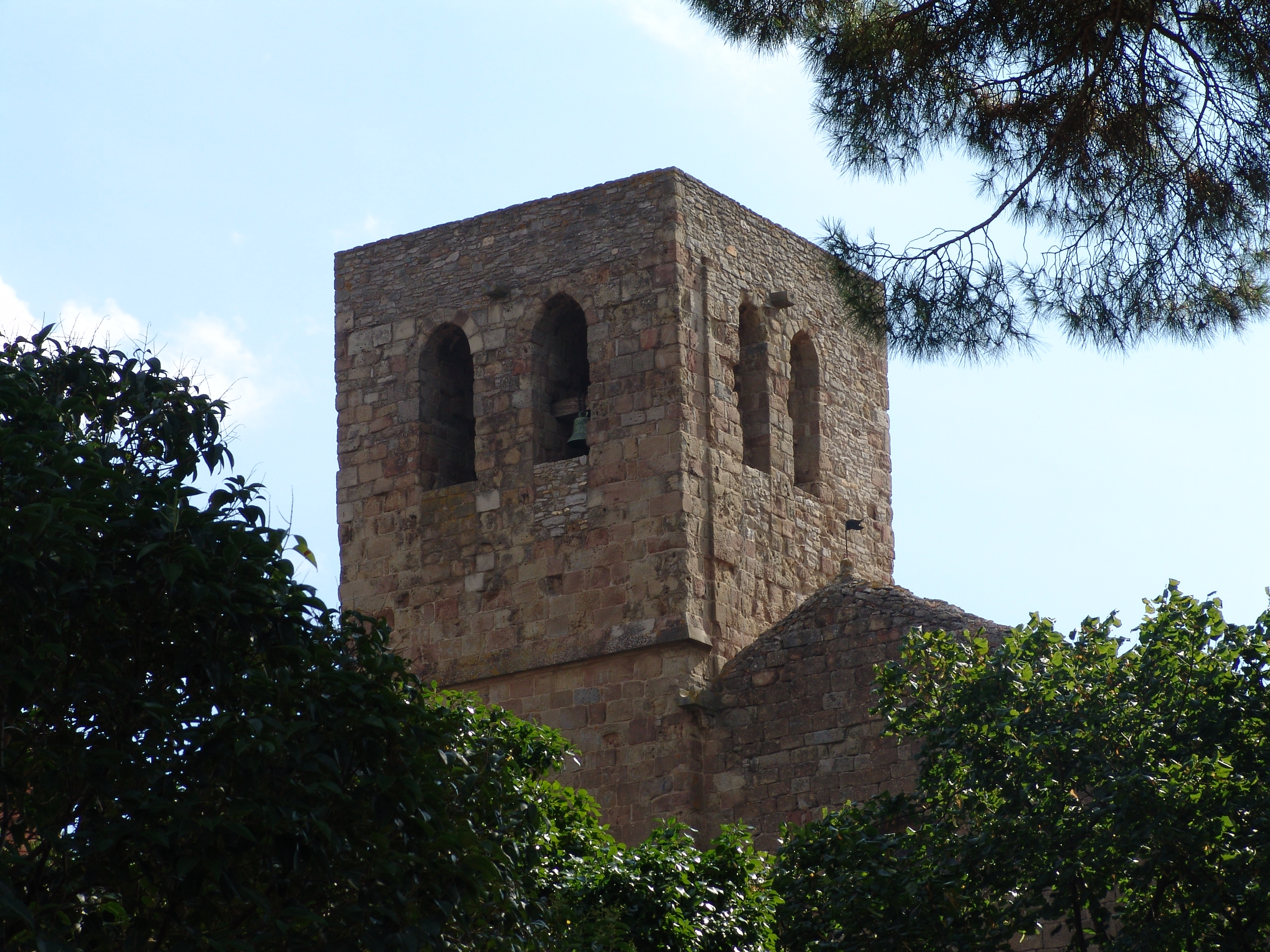 Church of XIIème century of the commune of Pépieux in the Aude (France)